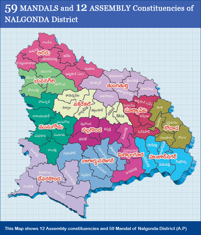 Nalgonda Mandals Assembly Constituencies Map